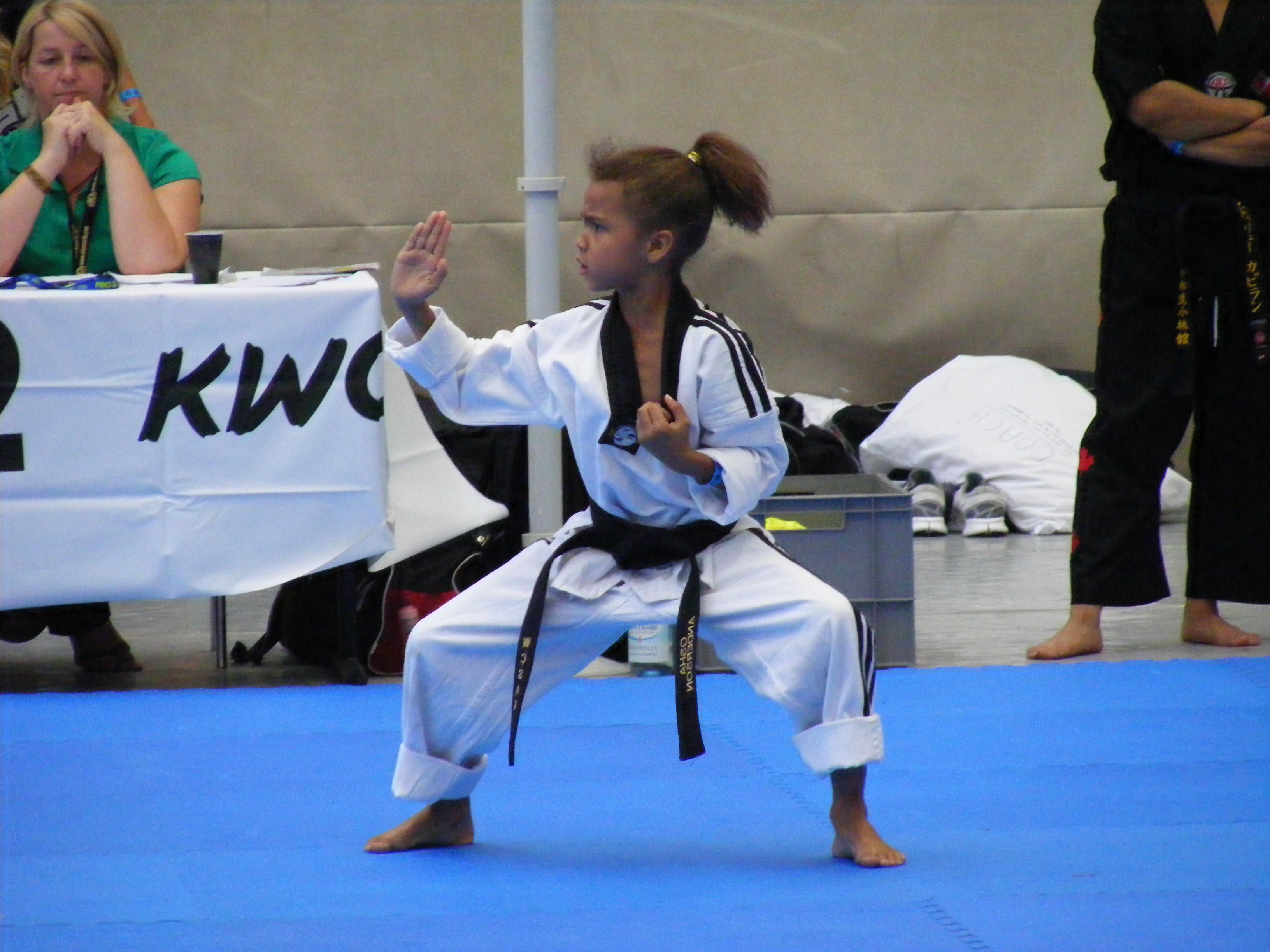 WKA World Championschip 2011 in Germany